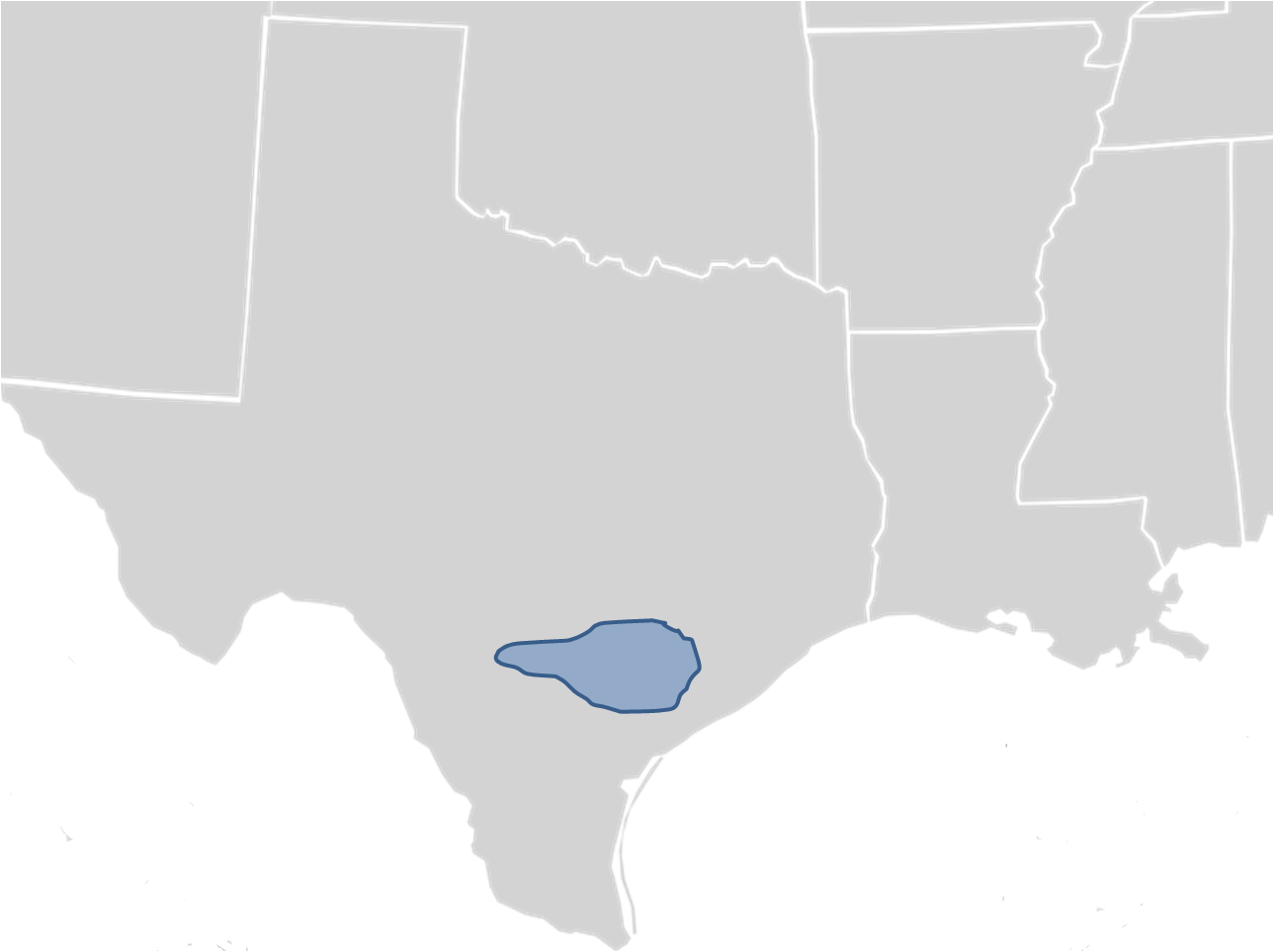 Range map of the Cagle's Map Turtle (Graptemys caglei), based on C.H. Ernst and J.E. Lovich. (2009) "Turtles of the United States and Canada. 2nd Ed." Baltimore: Johns Hopkins University Press, pg 280